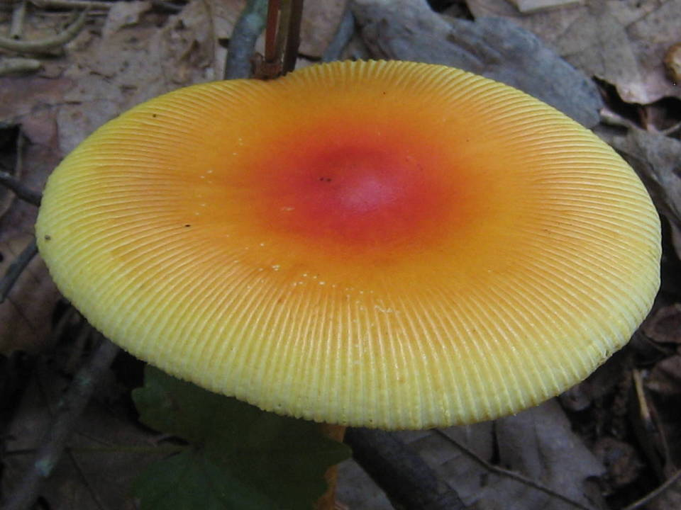 Amanita jacksonii